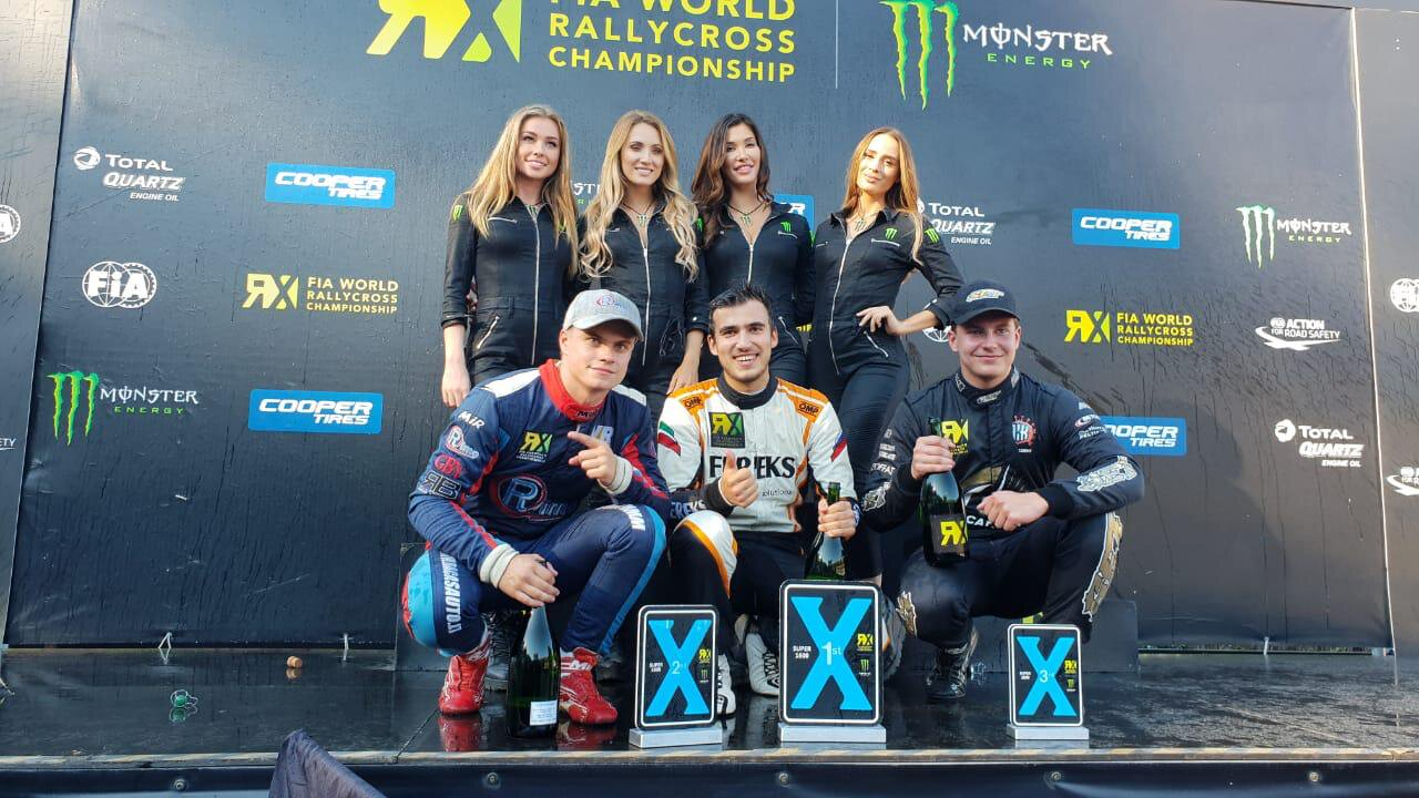 ERX2018, Germany, S1600, Rokas Baciuška - Aydar Nuriev - Jesse Kallio